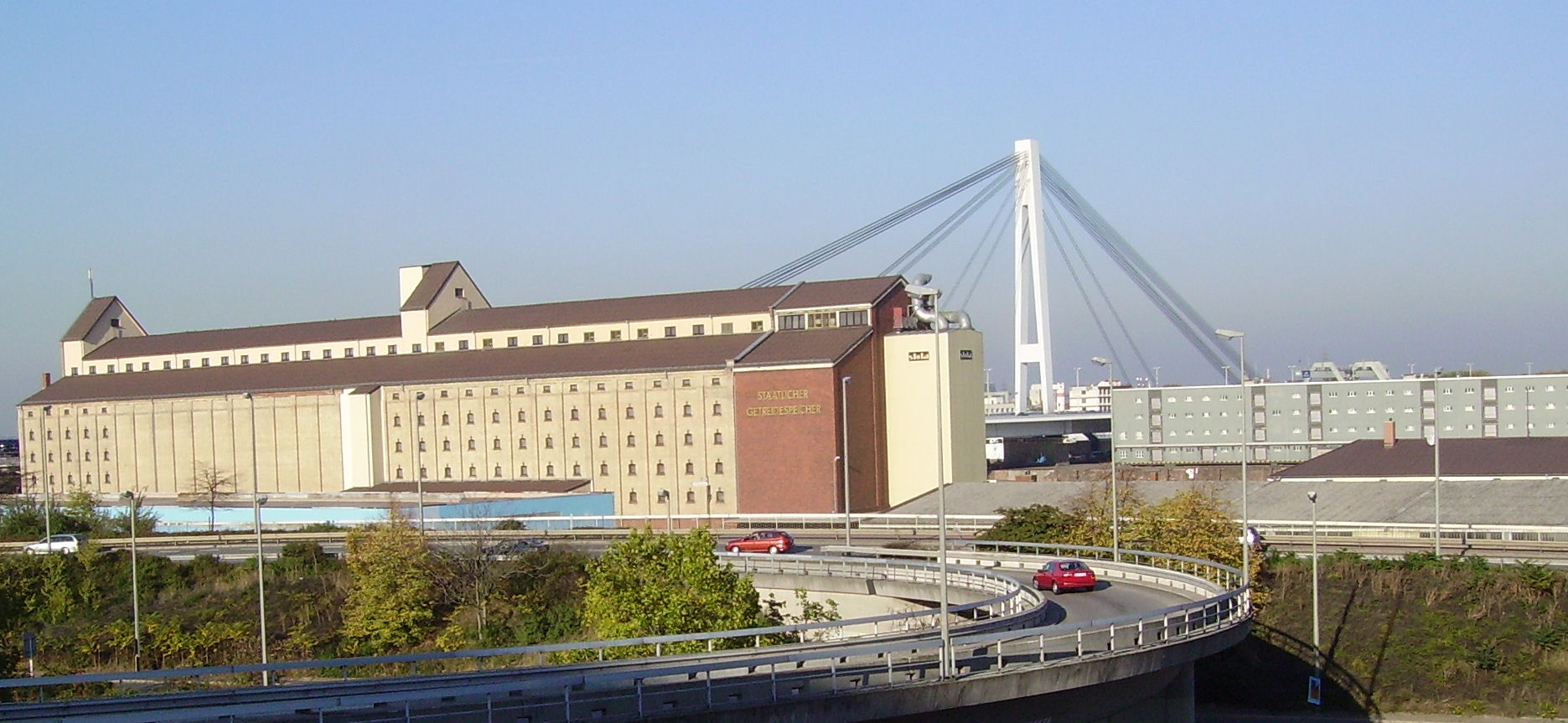 Ludwigshafen in Rhineland-Palatinate (Germany)